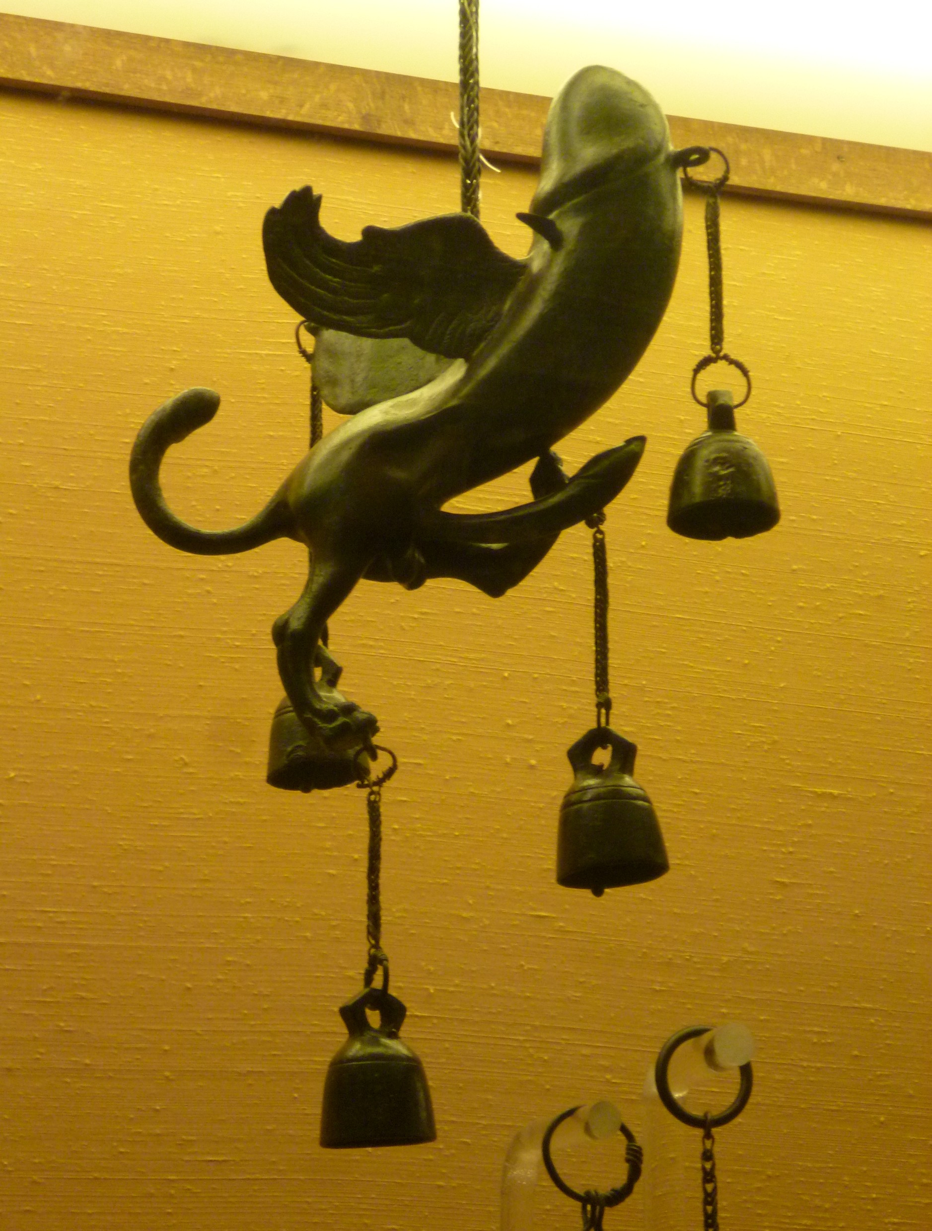 Bronze 'flying phallus' amulet, 1stC BC. It would be hung outside a house or shop doorway to ward off evil spirits. National Archaeological Museum, Naples.